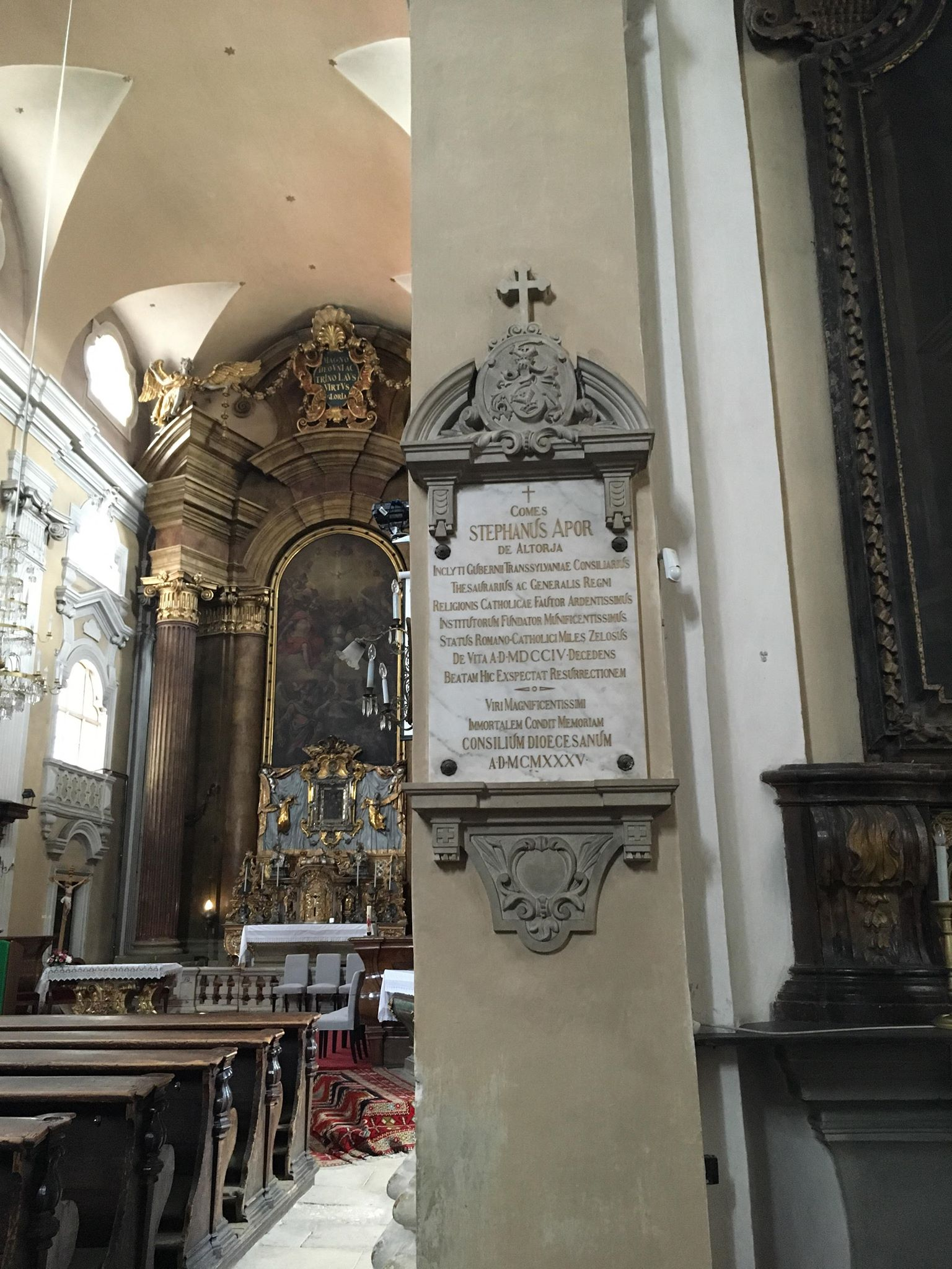 Memorial plaque of altorjai gróf Apor István (Count Apor István, Stephan Graf Apor von Altorja) in Piarist Church of Kolozsvár/Cluj.